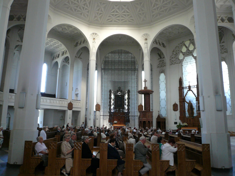 Interior looking north - Church Christ the King and St. Roch in Białystok (Kościół Crystusa Króla i św. Rocha) 1927